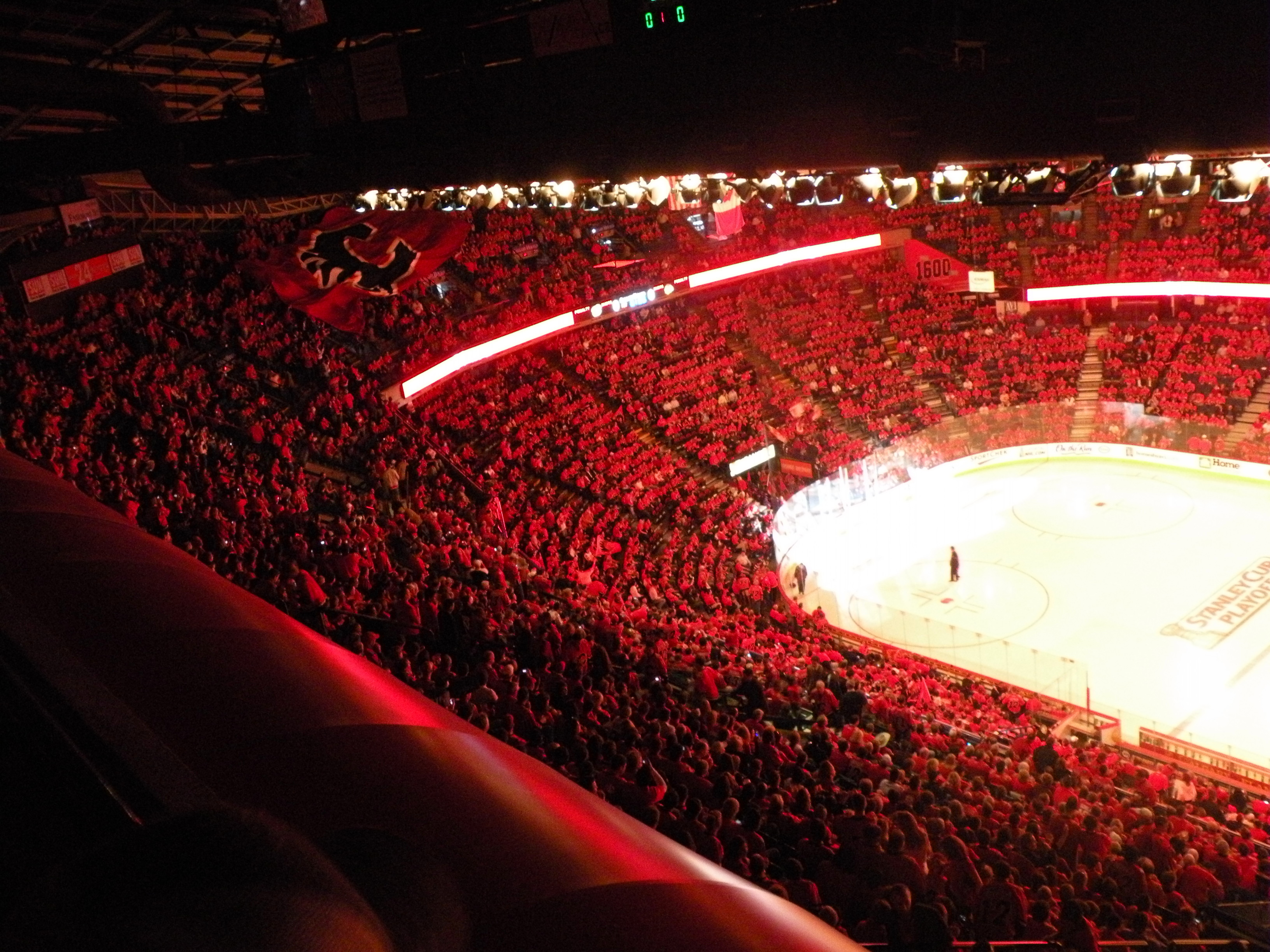 The "C of Red" in Calgary prior to game 3 of the Calgary Flames' National Hockey League playoff series against the Chicago Blackhawks, in Calgary.